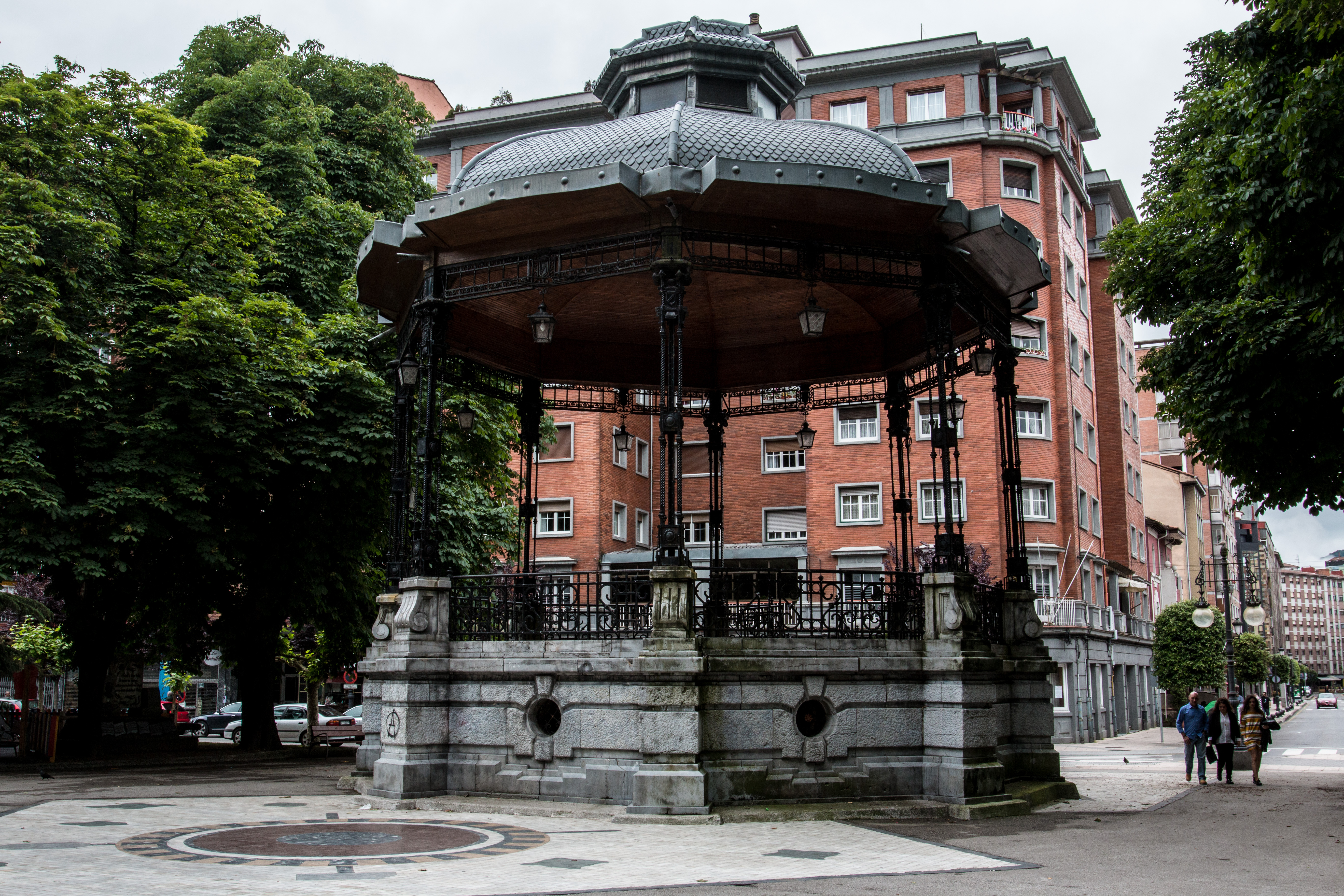 Bandstand at Dolores Duro park in La Felguera (Spain)